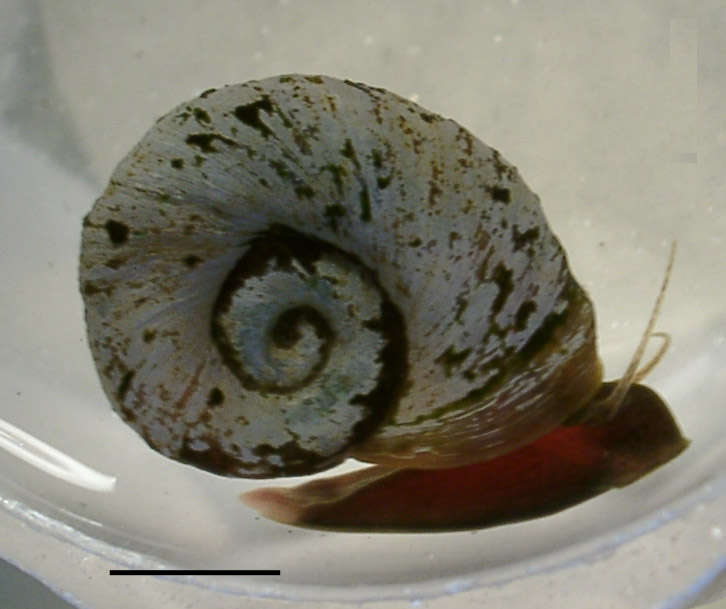 Photo of a live Indoplanorbis exustus